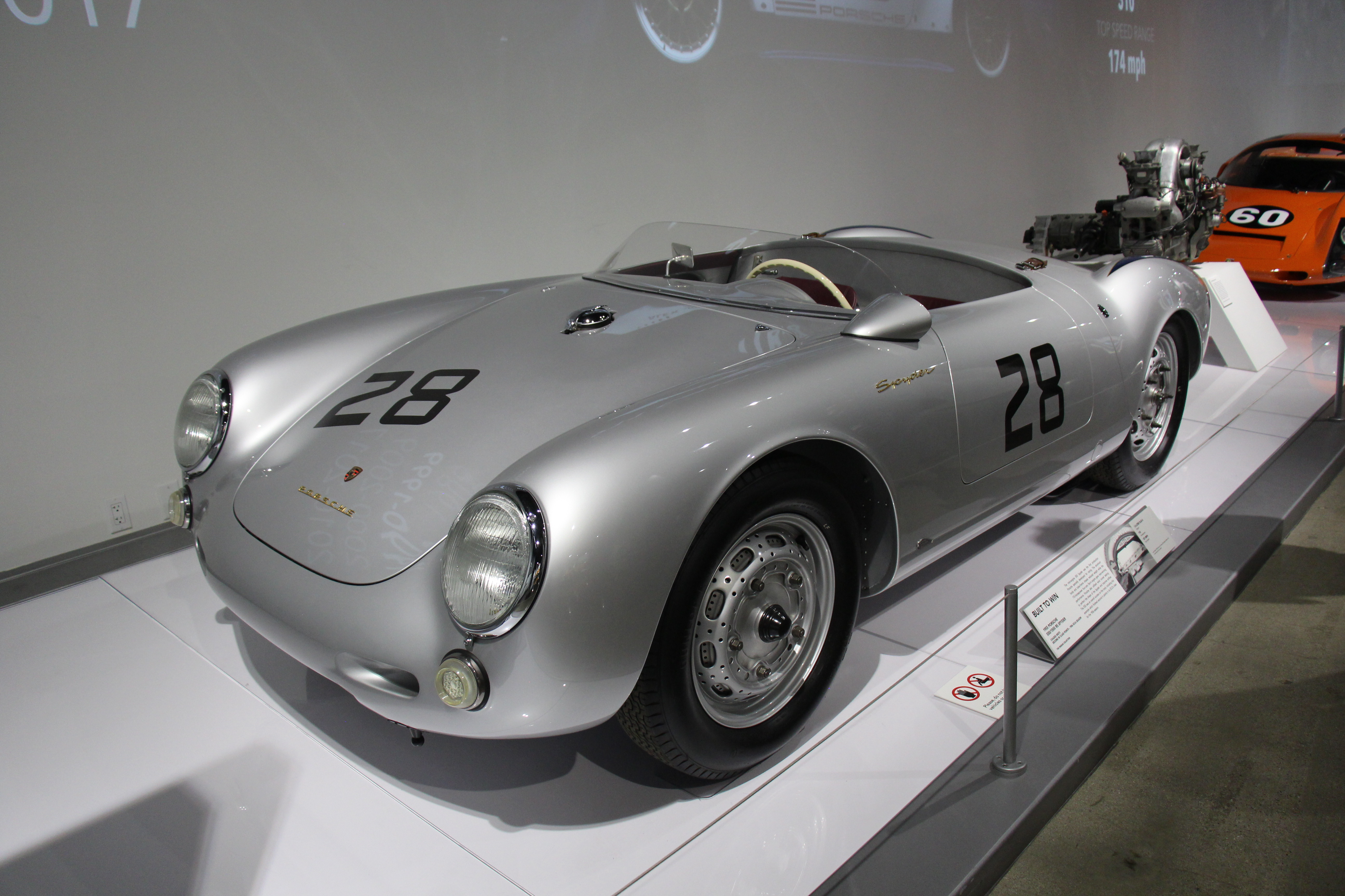 The Porsche 550 was a racing sports car produced by Porsche from 1953-56. Inspired by the 356, the 550 was very low to the ground, in order to be efficient for racing. It won 95 races out of 370 races it competed in, in Europe and America. Its successor from 1957 onwards, was the Porsche 718. Engine; 1498cc 4 cyl, air cooled horizontal opposed. This car finished second in points in its SCCA class for the 1956 season. Perhaps the most famous of the Porsche 550's built was James Dean's, which Dean fatally crashed into Donald Turnupseed's 1950 Ford Custom on September 30, 1955 Photographed at the Peterson Museum